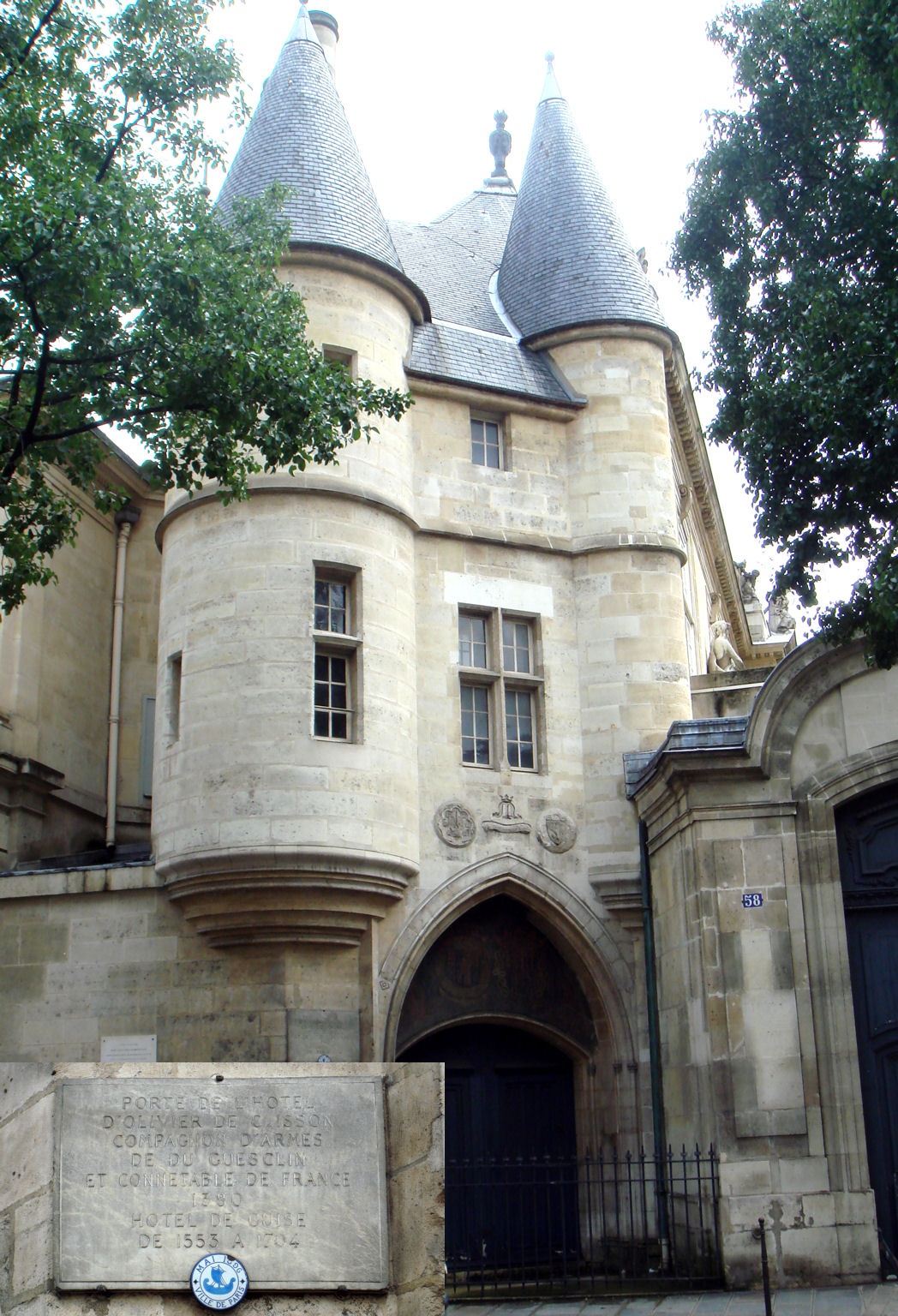 Entrance gate of Hôtel de Clisson, rue des Archives, Paris.